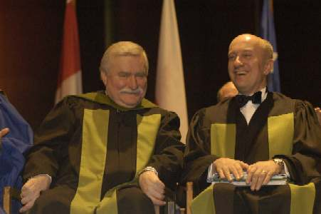 UQTR, D.H.C. to Lech Walesa